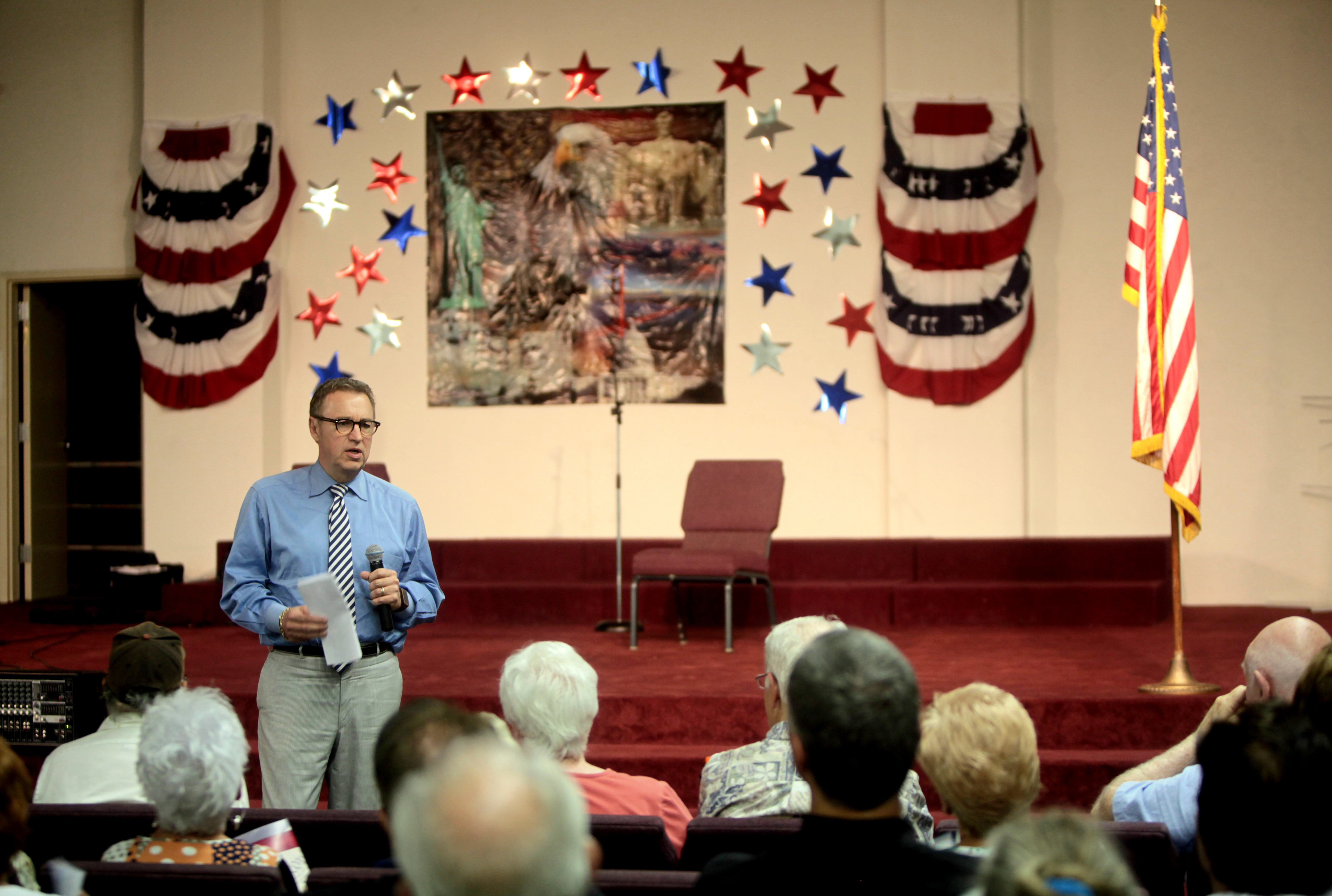 Member of the U.S. House of Representatives from Arizona's 5th district & 1st district; Chair of the Arizona Republican Party